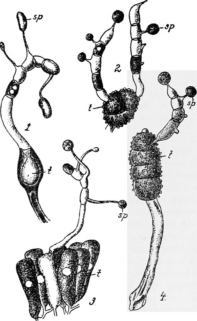 Fig. 60. Uredineae. Teleutospores of different genera germinating. By germination originate the promycelia which divide into cells, each of which produces a conidium. 1. Uromyces Fabae x 460. 2. Triphragmium Ulmariae x. 370. 3. Melampsora betulina x 370. 4. Phragmidium Rubi x 370. t—teliospora; sp—sporydium. After Tulasne.